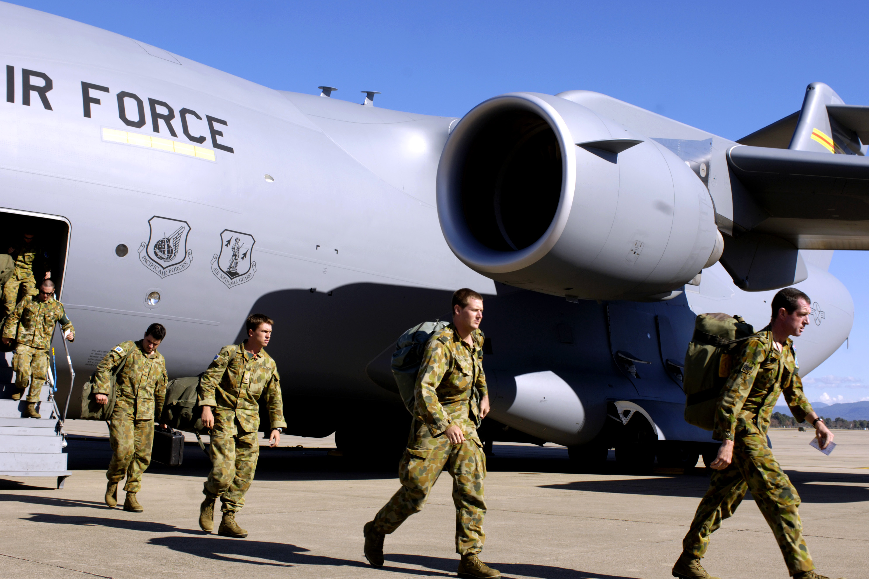 Members of the Australian Defence Force disembark from a Boeing C-17 Globemaster III at Royal Australian Air Force Base Richmond, Australia. Two C-17 Globemaster IIIs and their crews are helping the Australian Defence Force reposition its forces from the Solomon Islands back to Australia to better support peace operations in East Timor.